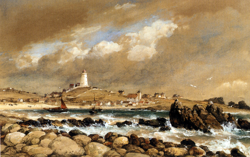 View Of St. Agnes, Scilly Isles